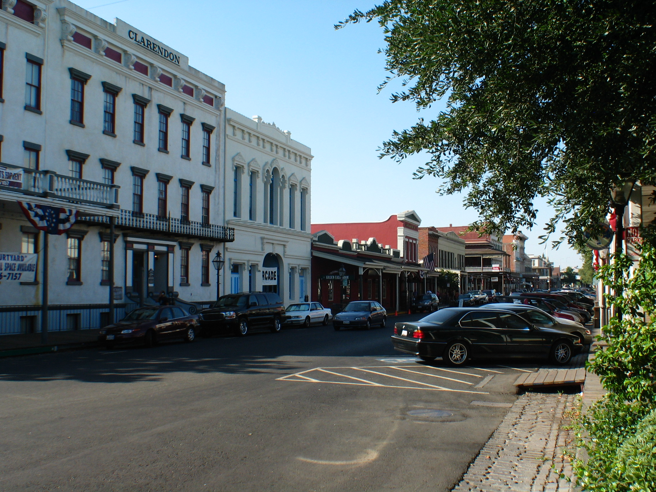 Old Town Sacramento, shows how Sacramento looked like in the 19th century